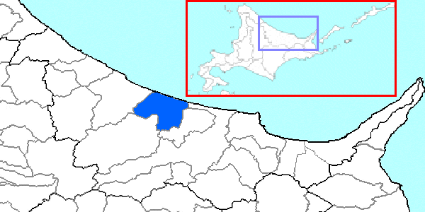 The location of Yubetsu in Abashiri Subprefecture, Hokkaido Prefecture, Japan.